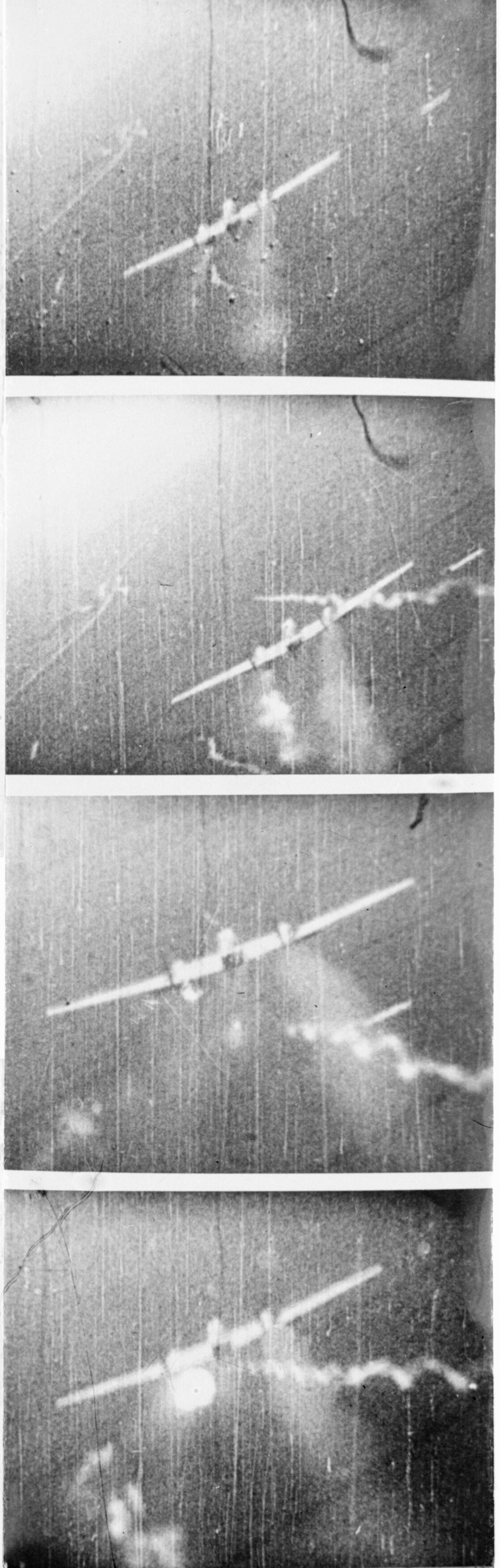 The Battle of Britain Sequence of camera gun still frames showing the destruction of a Messerschmitt Bf 110 by a British fighter.